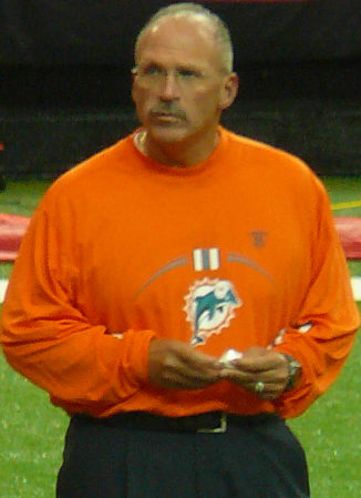 If used somewhere other than Wikipedia, Nelson, by name.